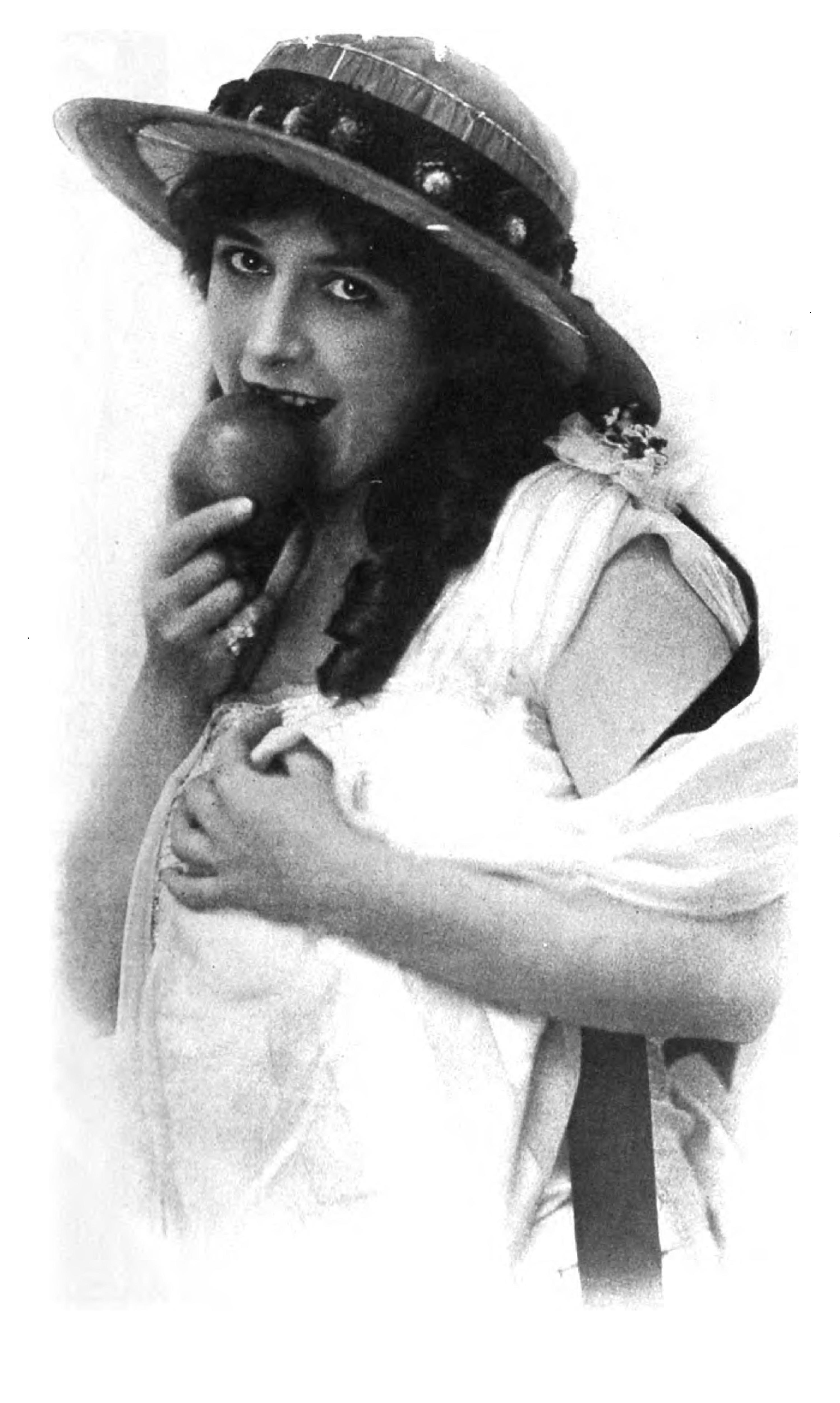 Dorothy Phillips (October 30, 1889[1] – March 1, 1980) was an American stage and film actress.